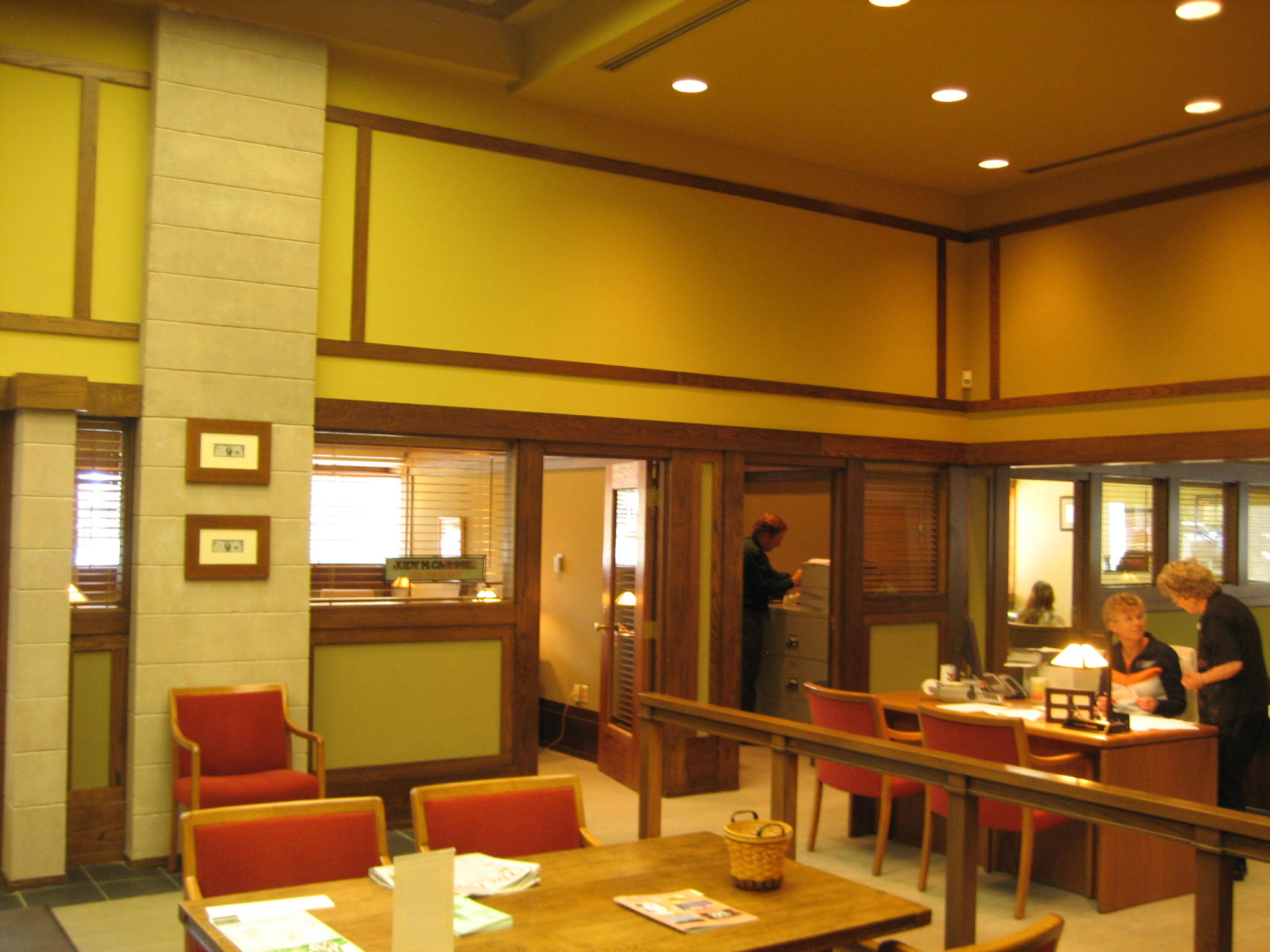 Frank L. Smith Bank, Dwight, Illinois, USA. Designed by American architect Frank Lloyd Wright. Frank L. Smith Bank, Dwight, Illinois, USA. Designed by American architect Frank Lloyd Wright. Interior.